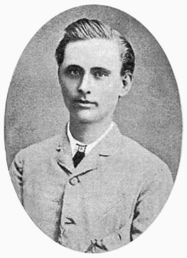 Arthur Ford Mackenzie (Kingston 1861 - ibid. 1905), Jamaican chess problemist of British descent